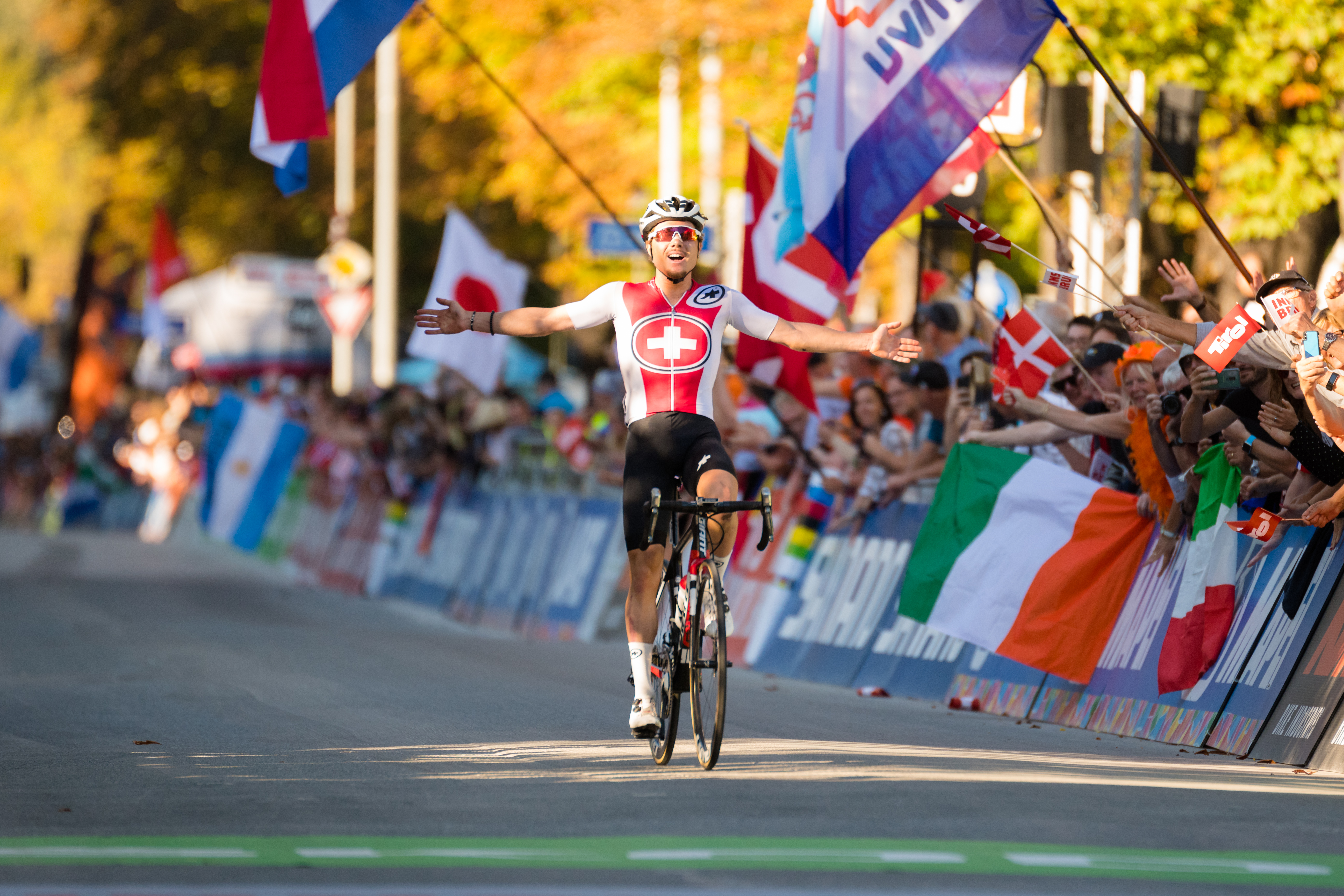 2018 UCI Road World Championships Innsbruck/Tirol Men under 23 Road Racel. Picture shows: Marc Hirschi of Switzerland